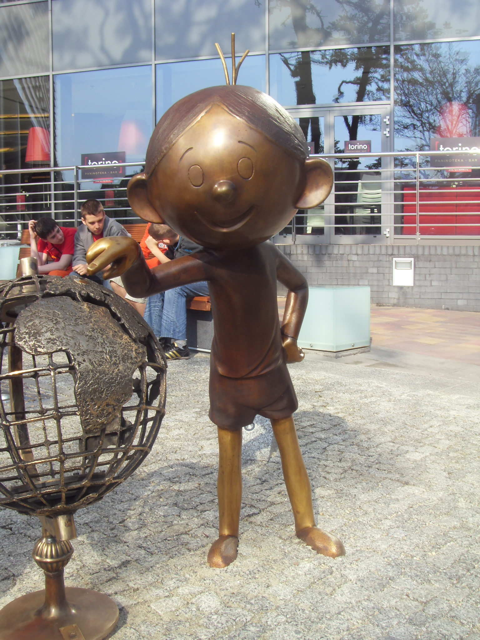 Bolek and Lolek monument in Bielsko-Biała